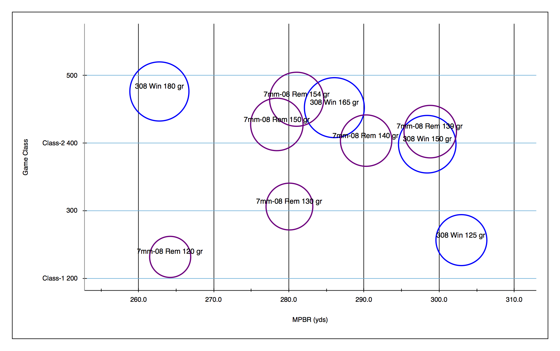 A chart of the Game Class vs 6 inch Maximum Point Blank Range of some 7mm-08 cartridges. The circle sizes are proportional to recoil velocity. Other calibre's for comparison. Created with the CartridgeChooser iPad App.